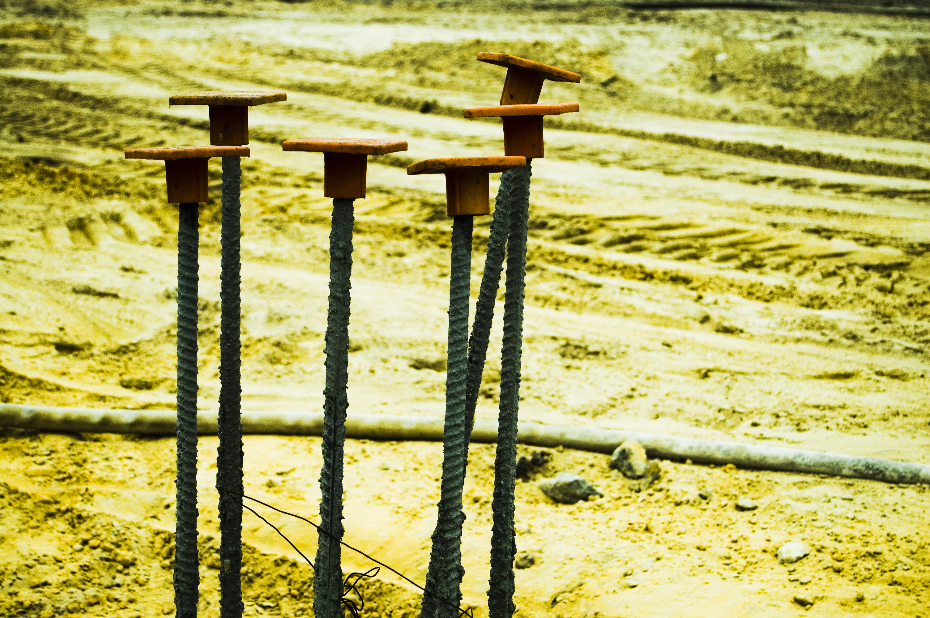 "Rebar graduation day". -- "Pantagrapher" on